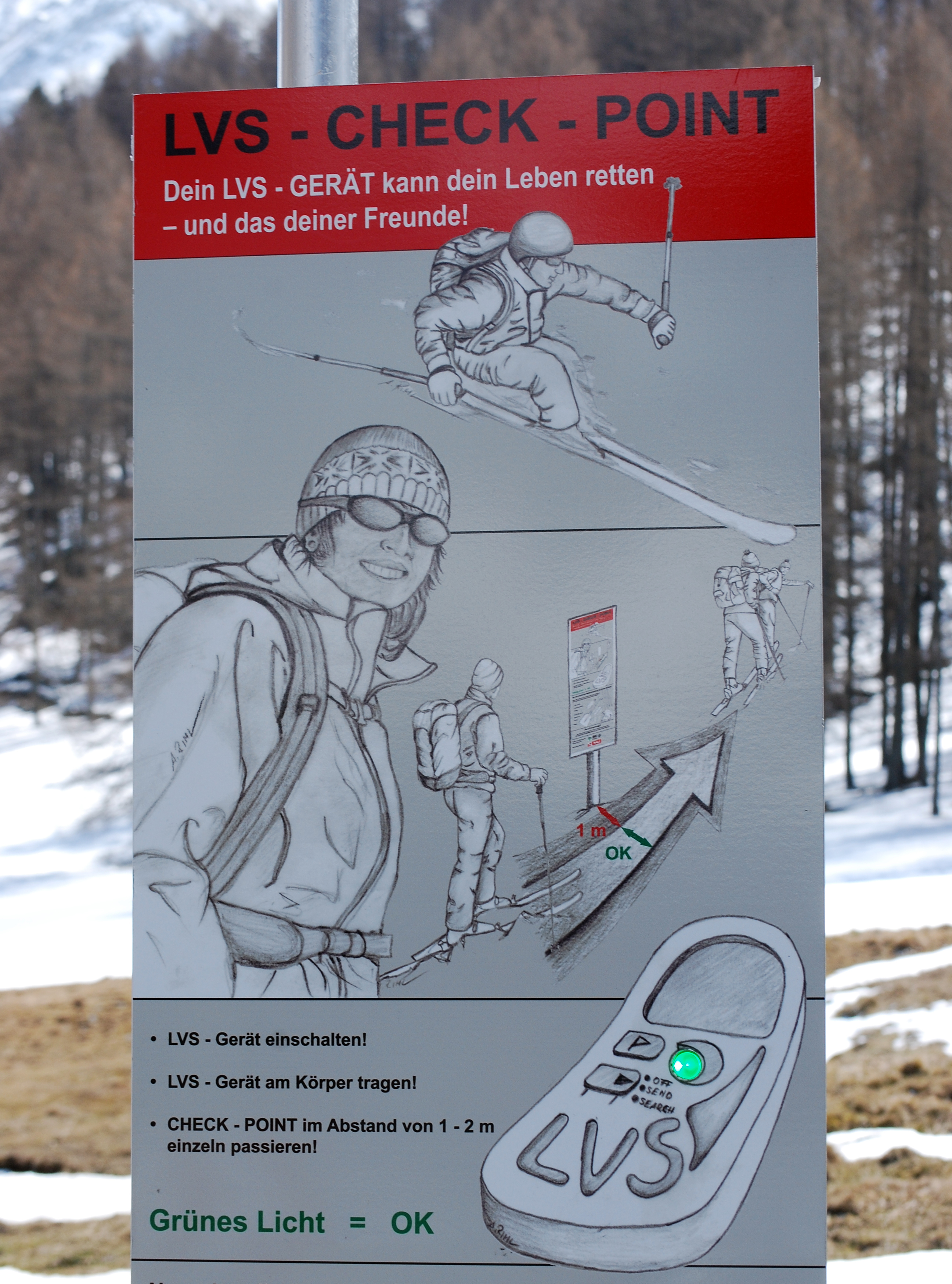 Checkpoint for avalanche transceivers (Haggen, St. Sigmund im Sellraintal, Austria)